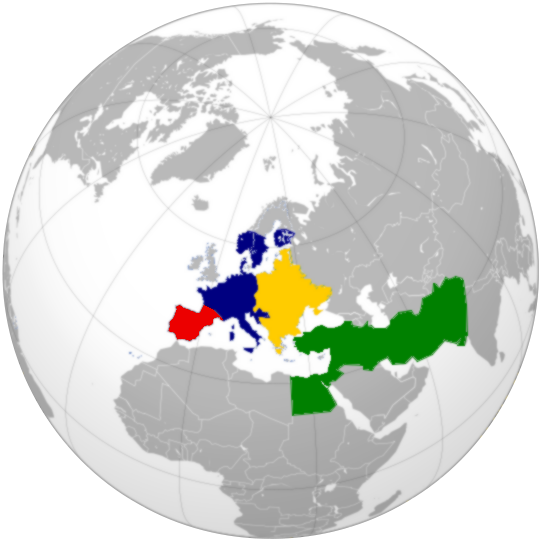 Romani people across the world.